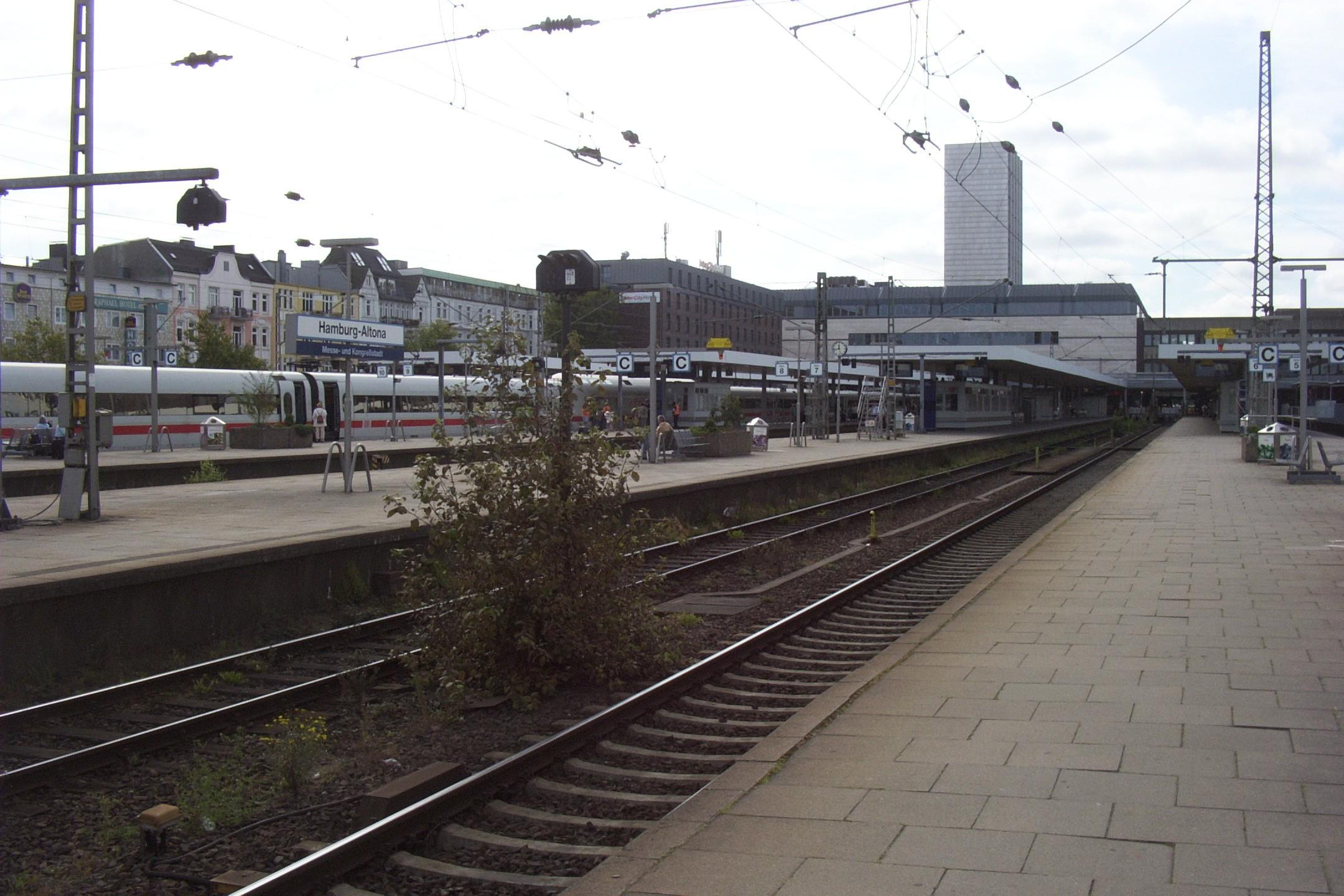 Station Hamburg-Altona (in the foreground: track 6).